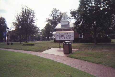 Morehouse was found in 1867. Morehouse is an all male black college.